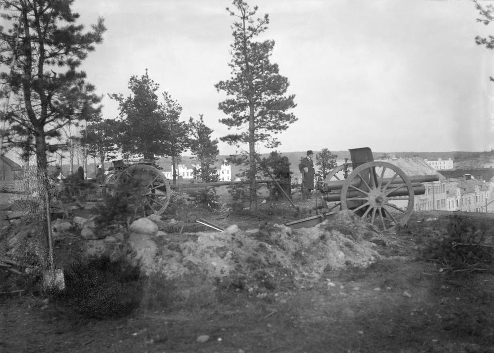 1918 Finnish Civil War: Red Guard artillery in the Radiomäki hill after the Battle of Lahti